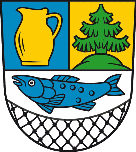 Coat of arms of Zeesen, part of Königs Wusterhausen